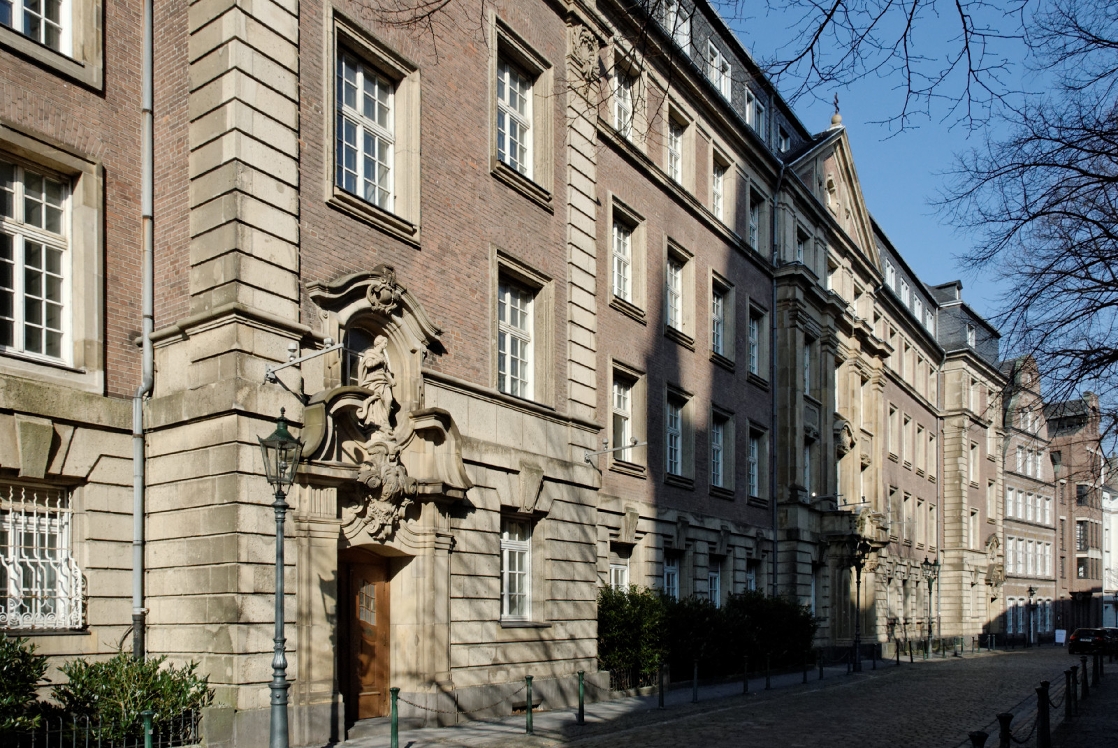 House Altestadt 2 in Düsseldorf-Altstadt, Germany